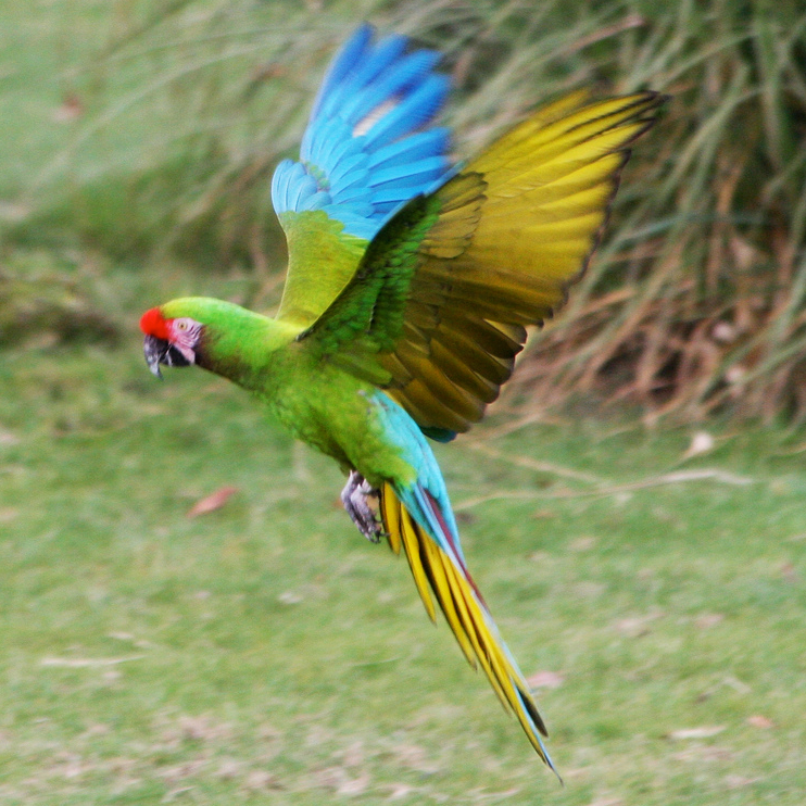 Military Macaw flying at Whipsnade Zoo, Bedfordshire, England.